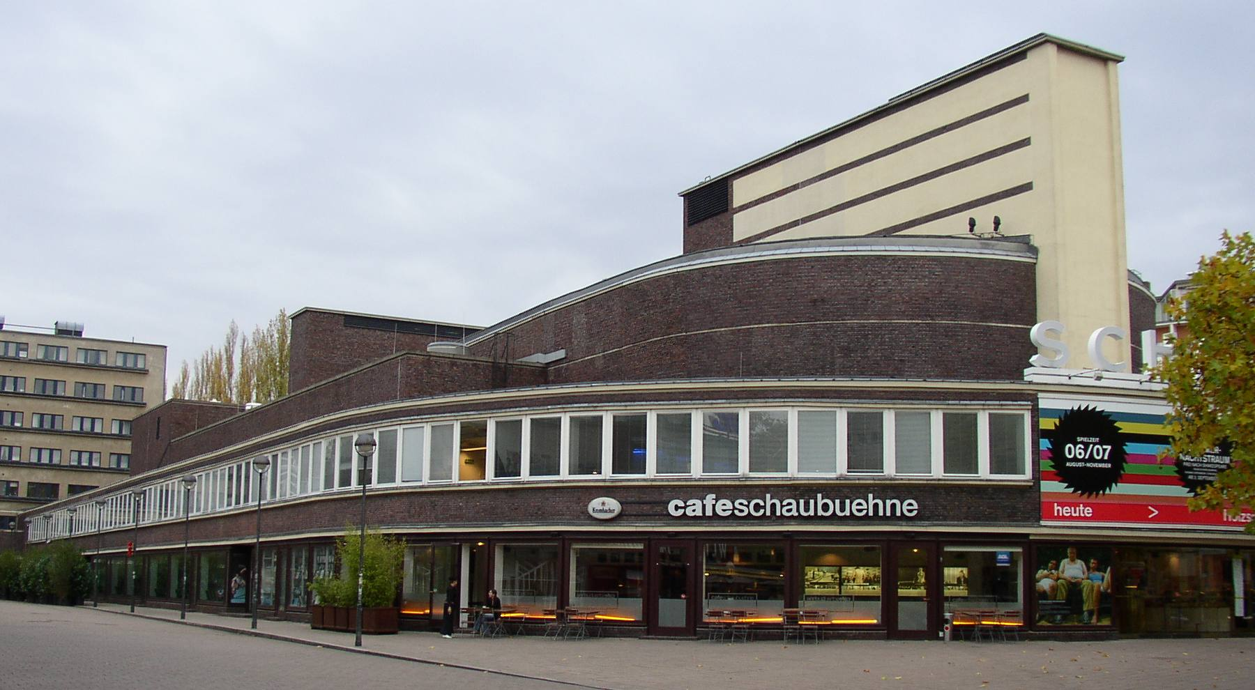 Theatre „Schaubühne“ in Berlin-Wilmersdorf, Germany